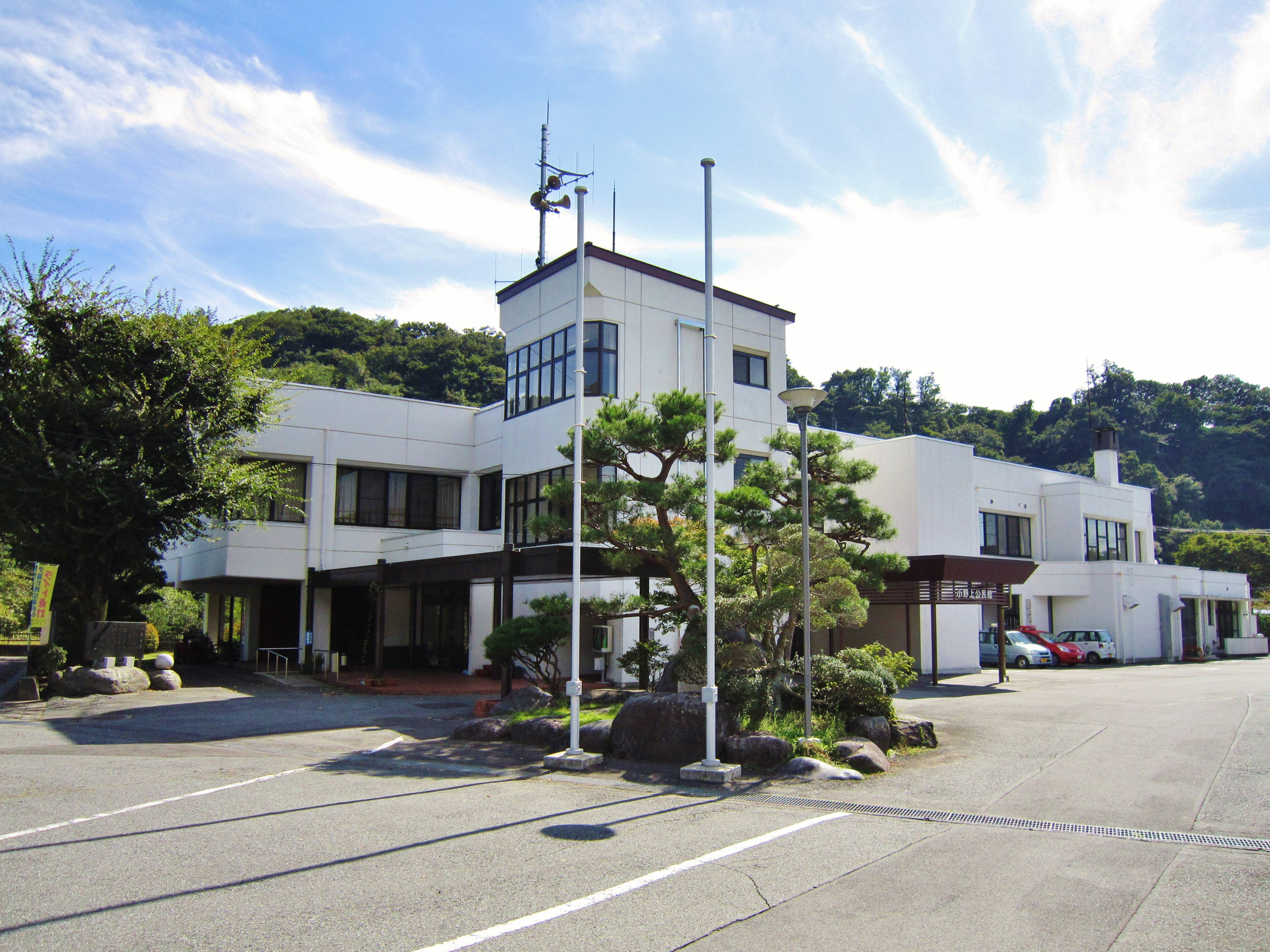 Shibukawa city Onogami branch office.